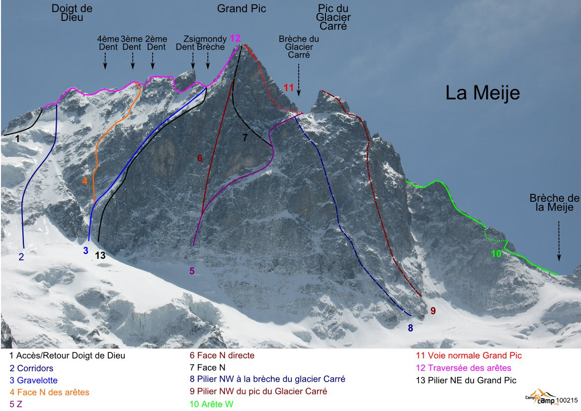 Meije - North face - Routes